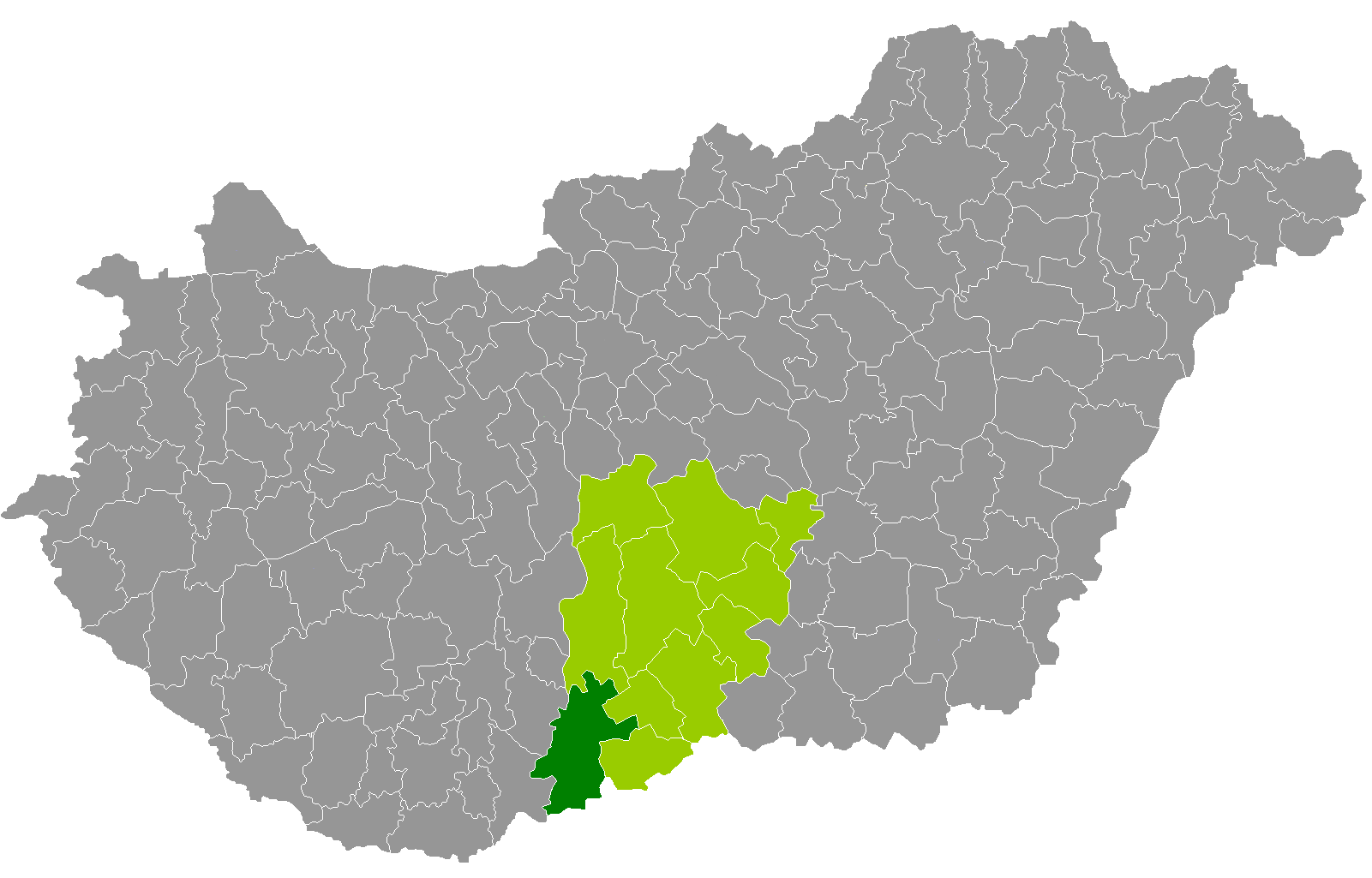 Location of Baja District, Bács-Kiskun, Hungary